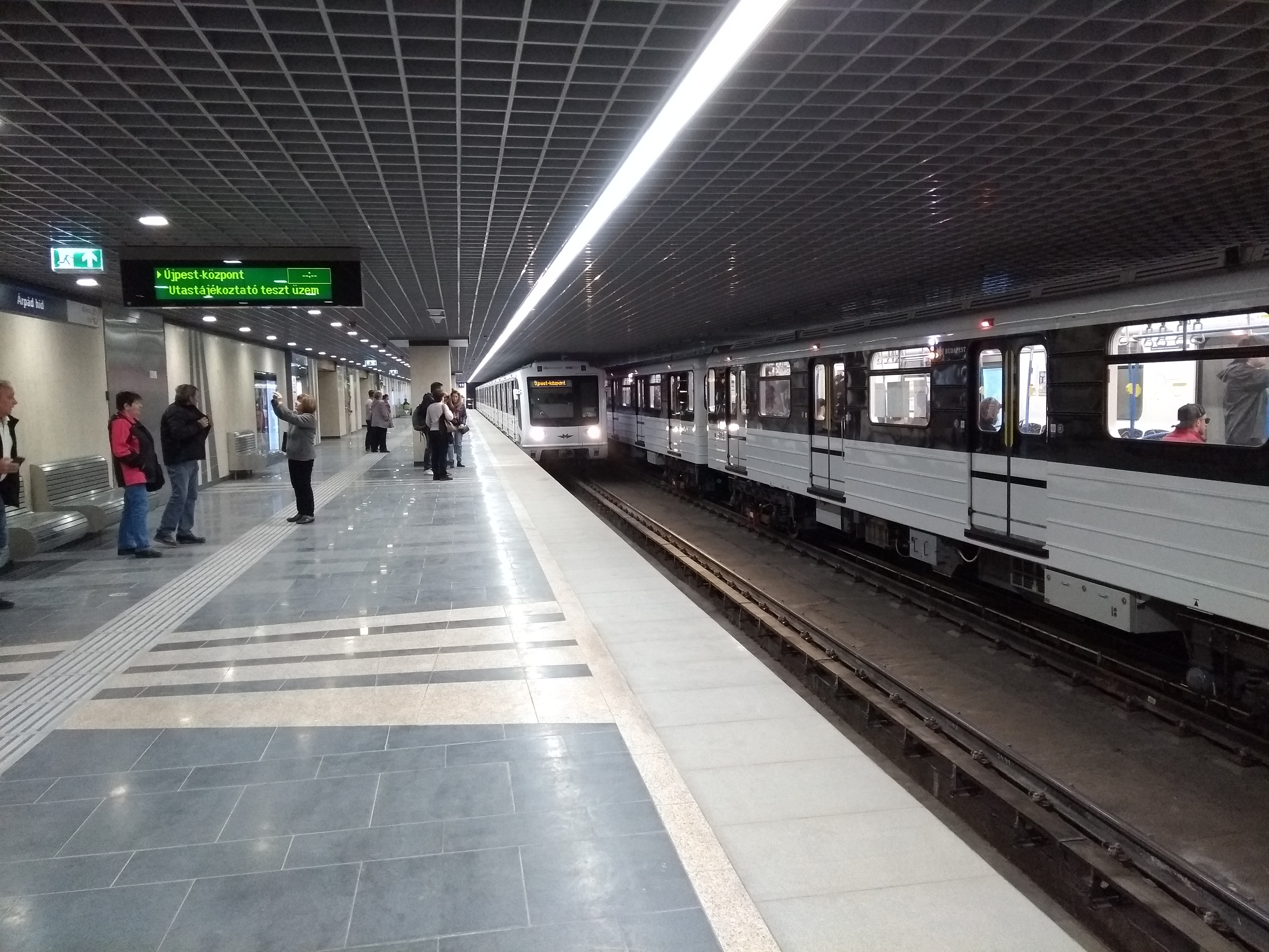 Árpád híd metro station, platform to Újpest-központ, looking sothwards. 81-717.2K/714.2K arriving to the station. The photo was taken on the they the renovated station was opened.